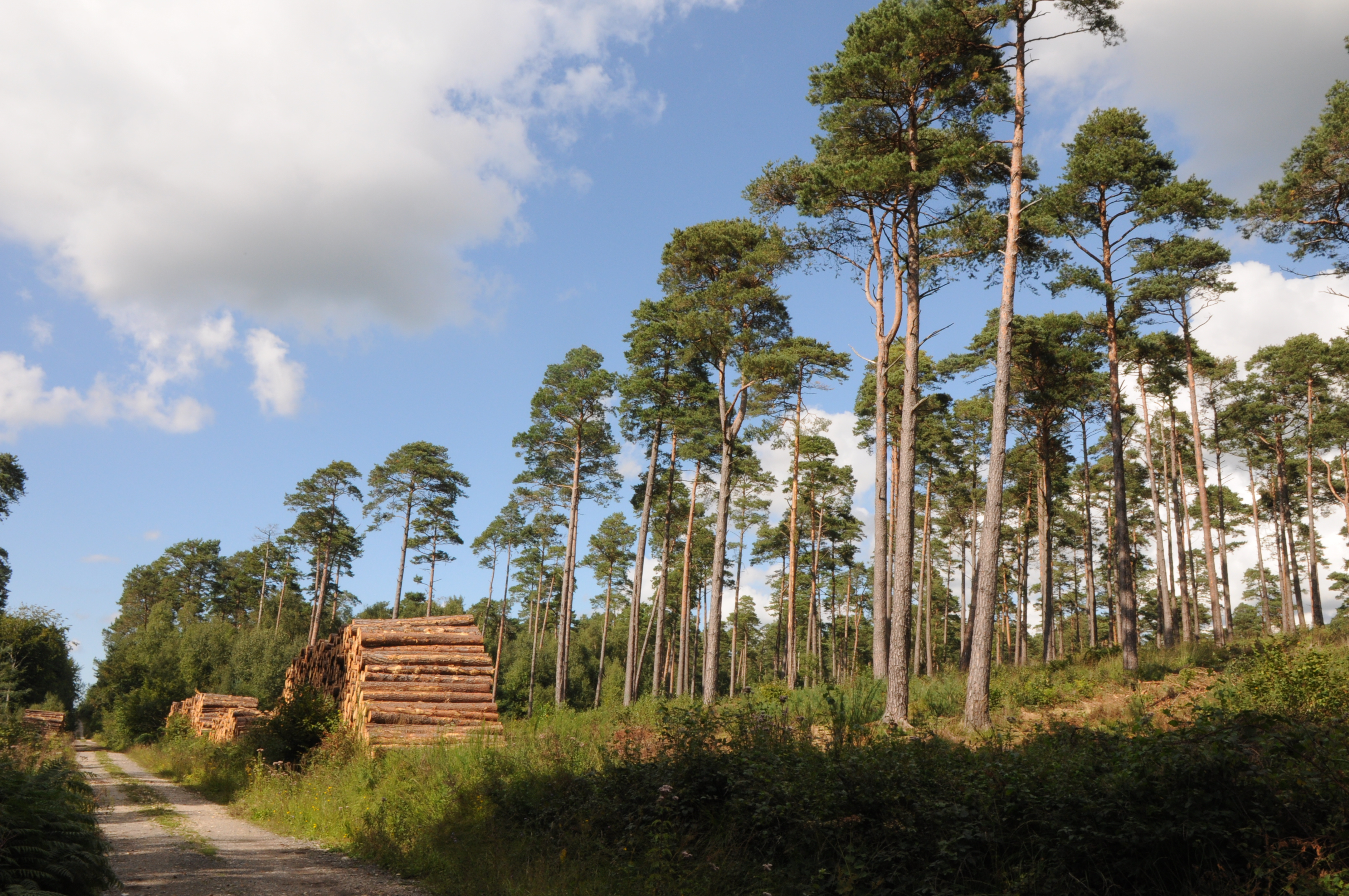 Forêt domaniale de Desvres